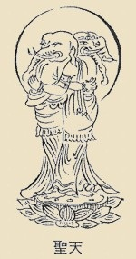 "Butsuzō-zu-i 仏像図彙, “Collected Illustrations of Buddhist Images.” Published 1690 (Genroku 元禄 3)."